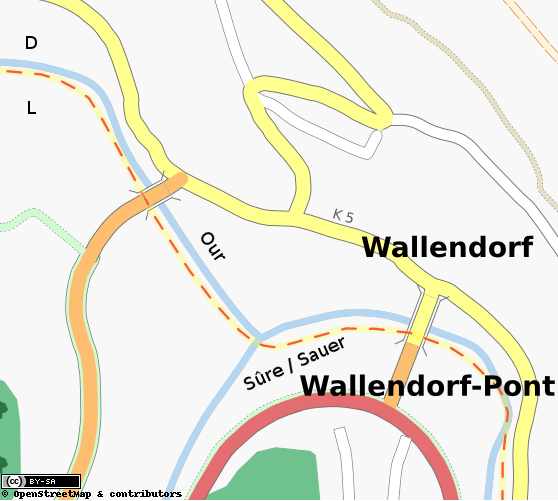 Map of Wallendorf (D) and Wallendorf-Pont (L) with rivers Our and Sure.